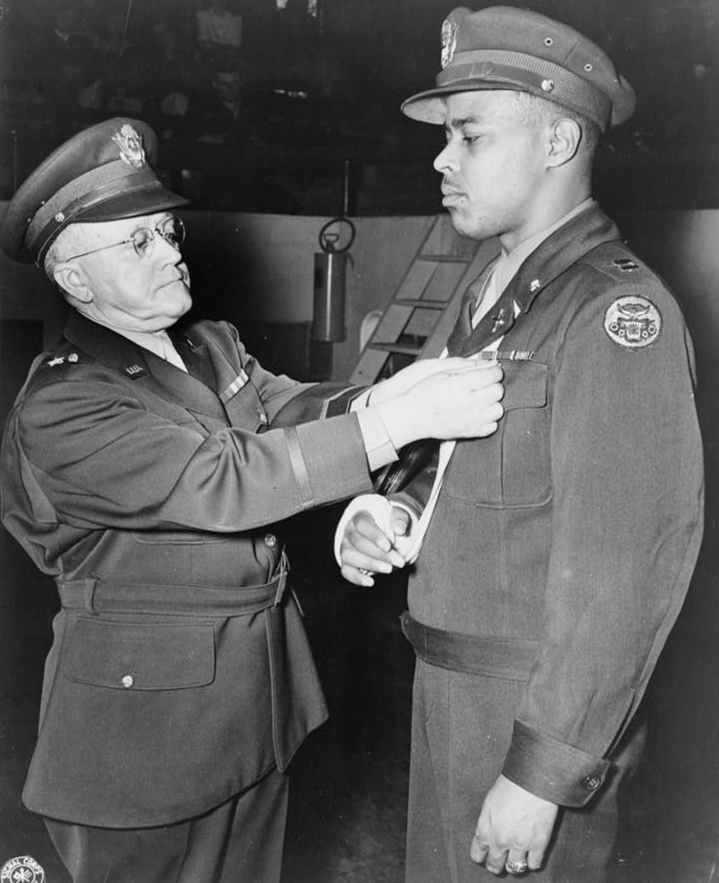 Captain Charles L. Thomas, US Army, being awarded the Distinguished Service Cross by Brigadier-General Joseph E. Bastion.